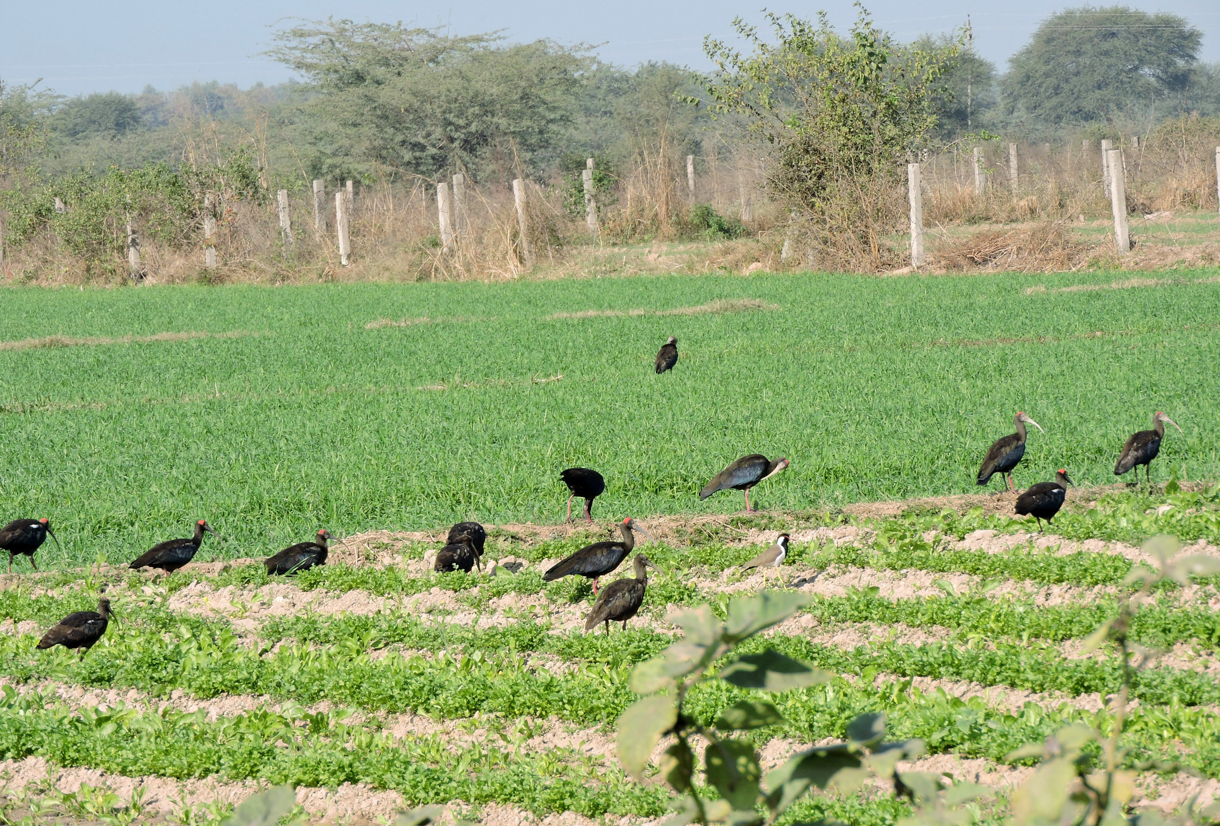 Ibis, Near Mohali, Punjab, India